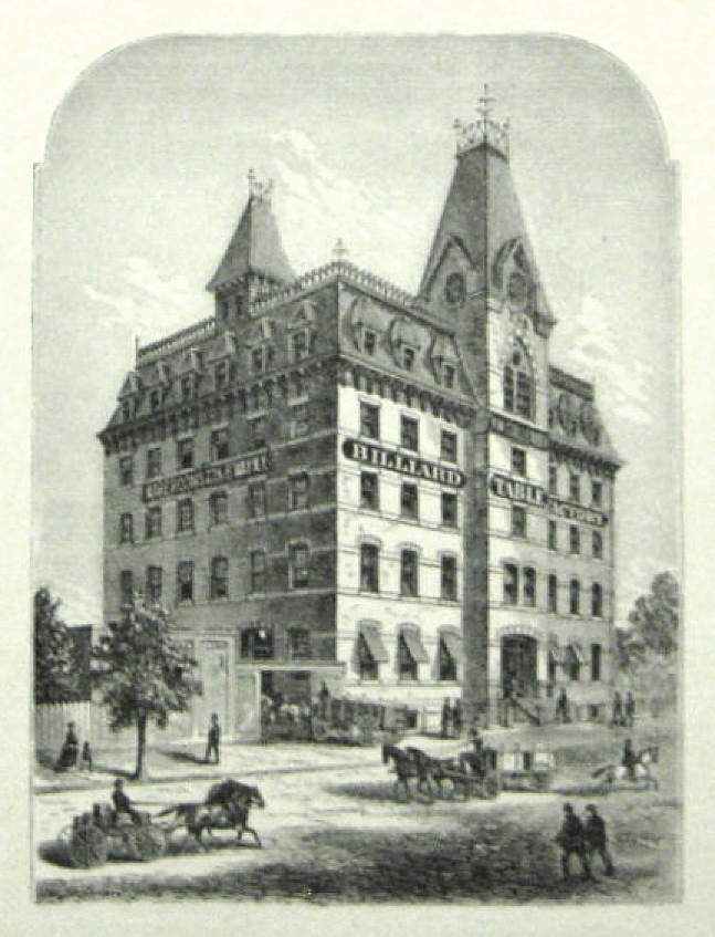 A woodcut of the H. W. Collender Billiard Manufactory in Stanford New York in the 1870s, from a Collender & Co. advertisement in the Asher & Adams Railroad Atlas of 1876.